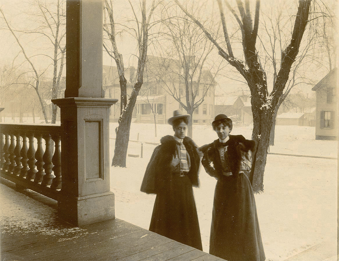 Photograph of Maud Hunt Squire and Ethel Mars